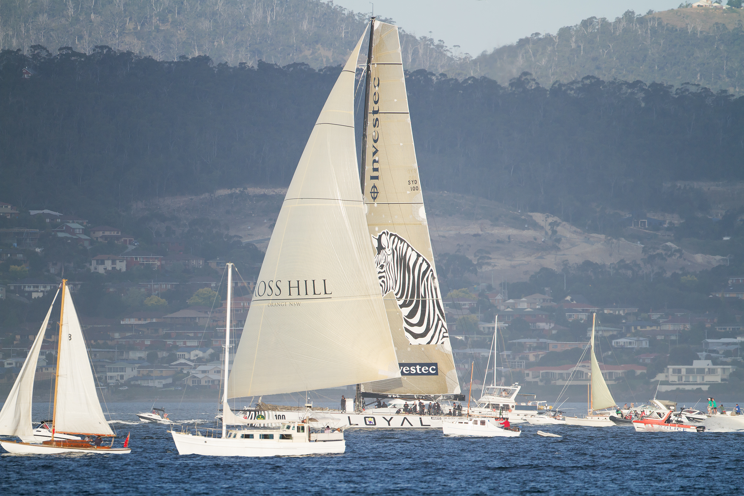 Investec Loyal about to win the 2011 Sydney to Hobart, Taken from Sandy Bay, Hobart, Tasmania, Australia